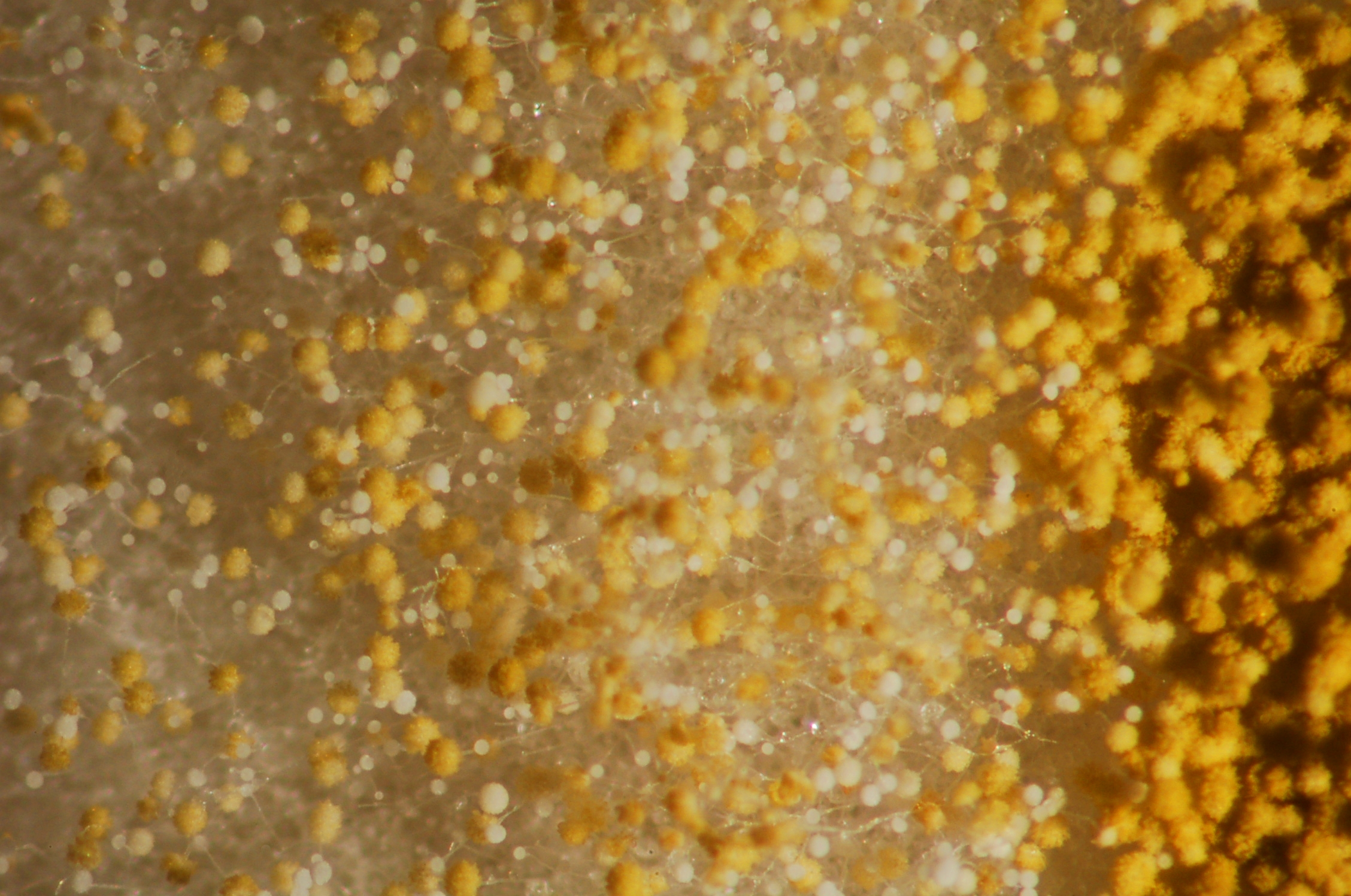 An unidentified species of Aspergillus magnified 4.5X. Identified using Barnett, H. L. & Hunter, B. B. (1998) Illustrated Genera of Imperfect Fungi. APS Press: St. Paul, MN; pp. 94–5 ISBN 0-89054-192-2.